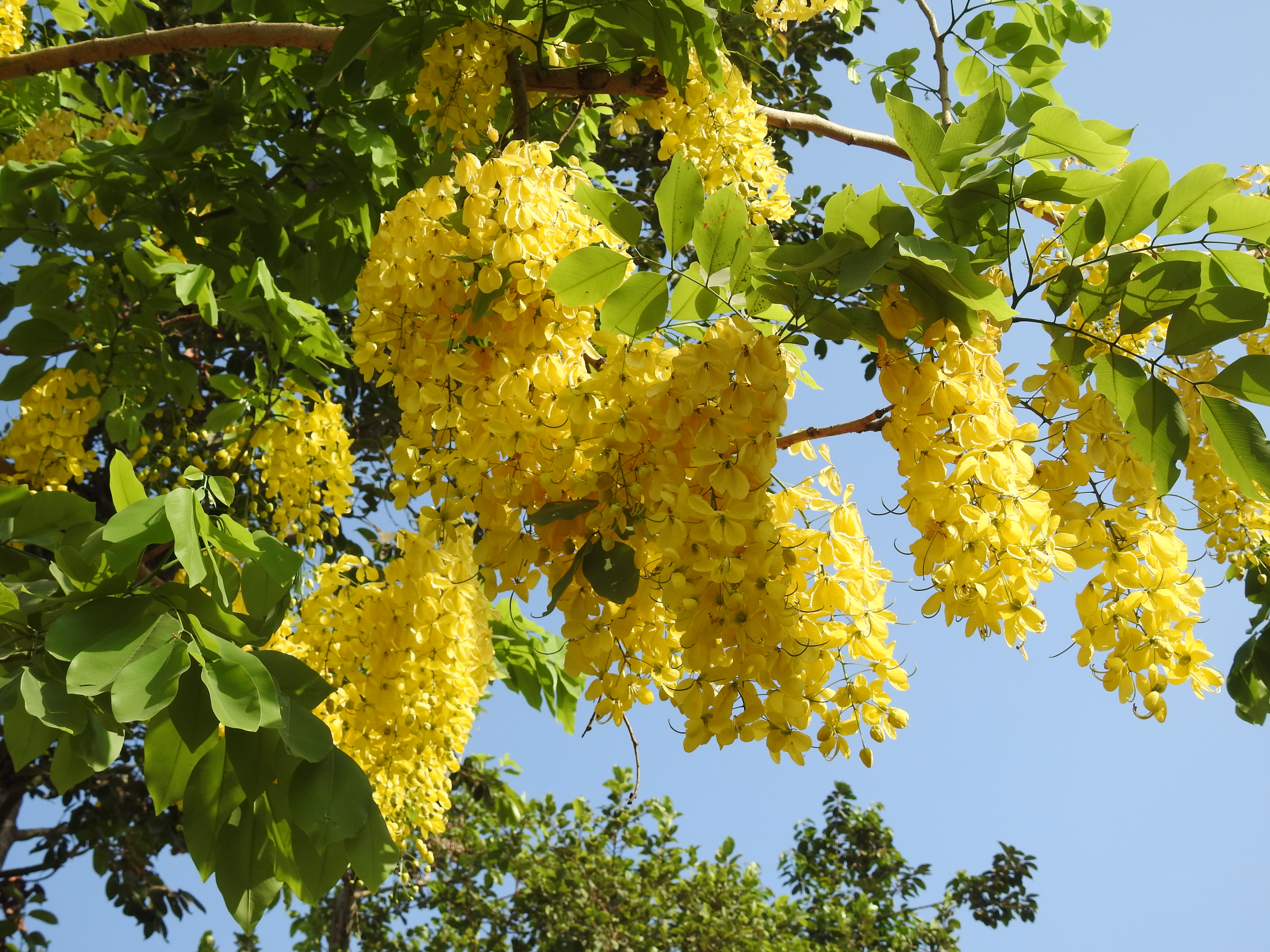 Cassia fistula flowers by Dr. Raju Kasambe. Photographed at Mumbai, Maharashtra, India